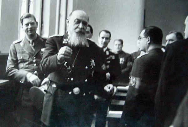 Nicolae Iorga speaking